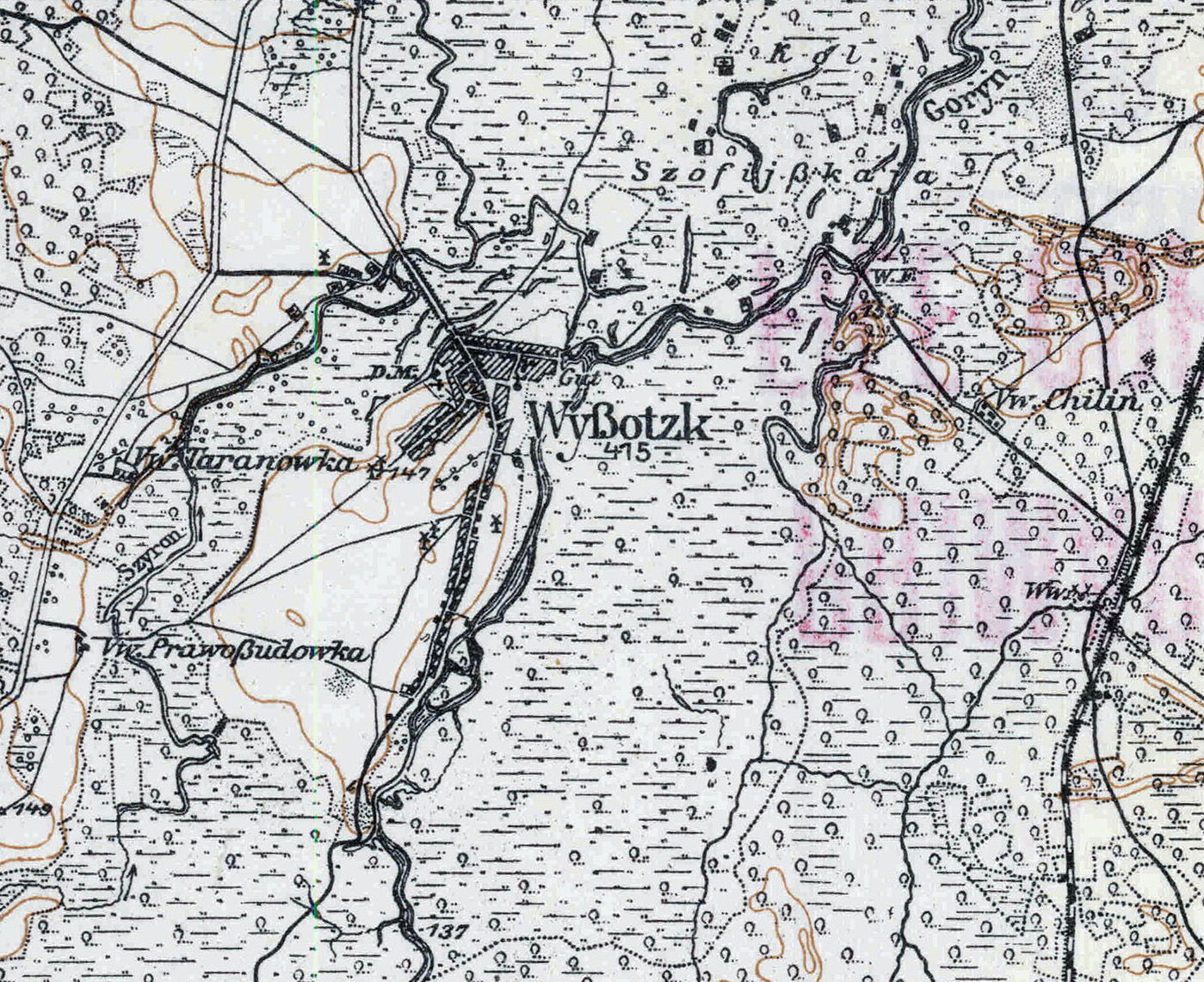 Khylin on the map "Karte des Westlichen Russlands", T 35, 1917. According to Digital Repository of Scientific Institutes and Kujawsko-Pomorska Digital Library the map is in the public domain.